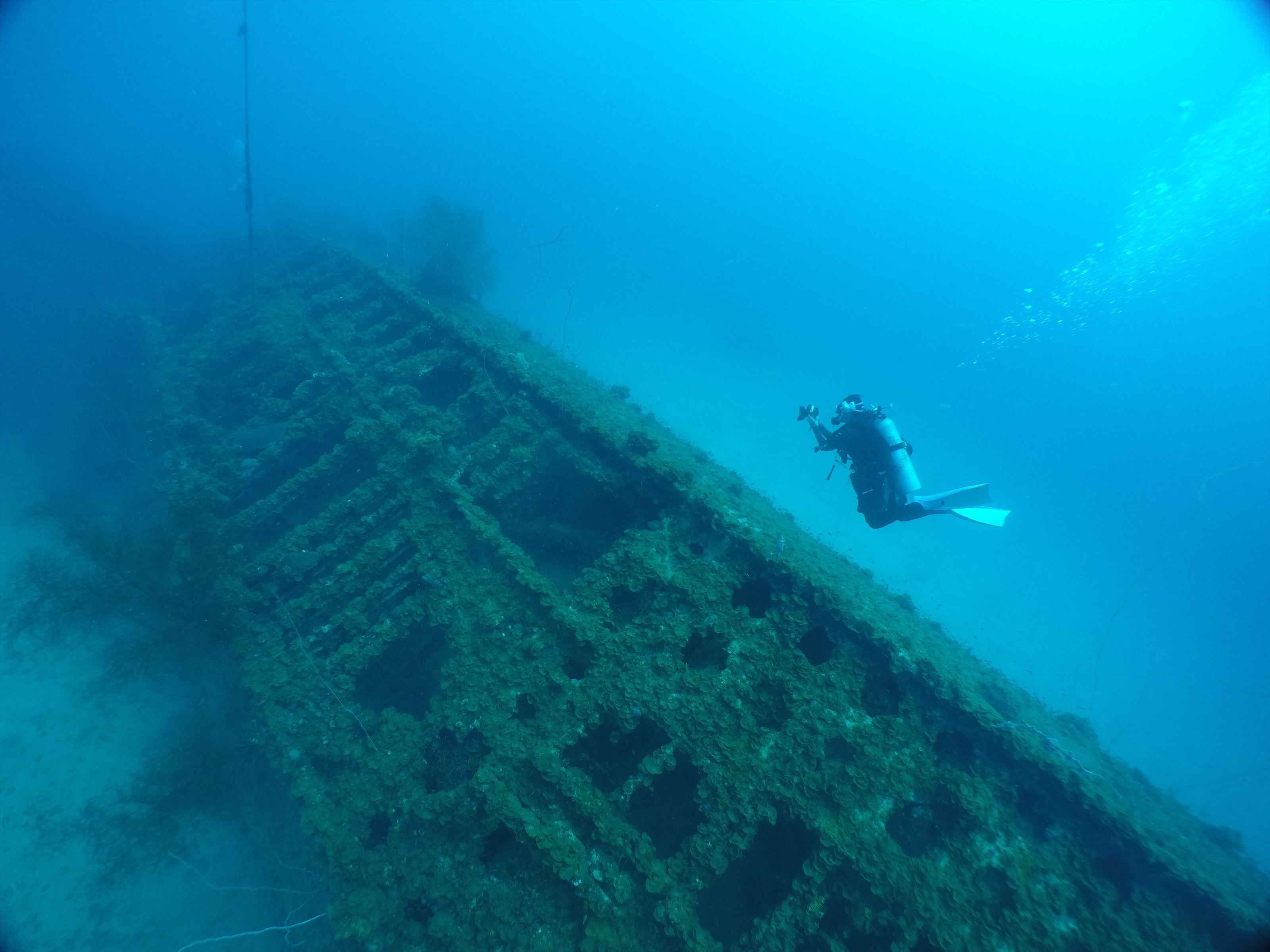 Igo submarine 169